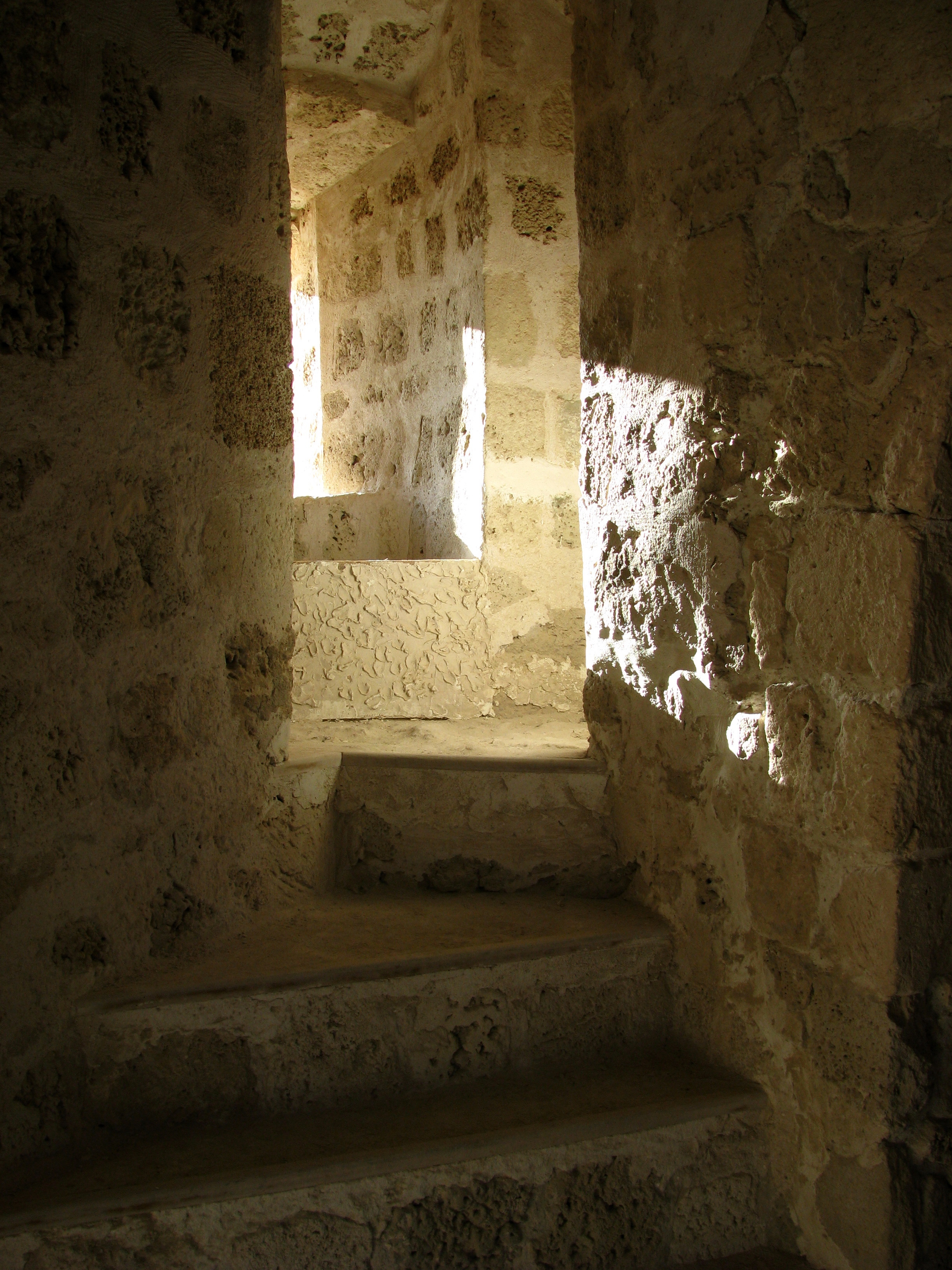 Inside the Bahrain Fort (Qal'at al-Bahrain) ... the old Portuguese fort has been beautifully restored.